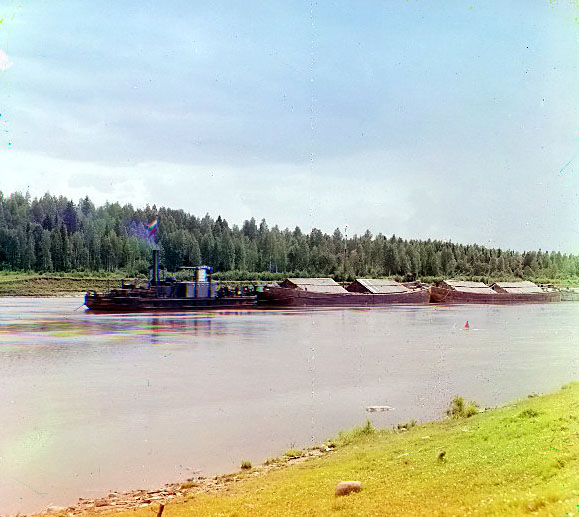 Toueur with barges travelling along Marrinskaya canal system, Russia